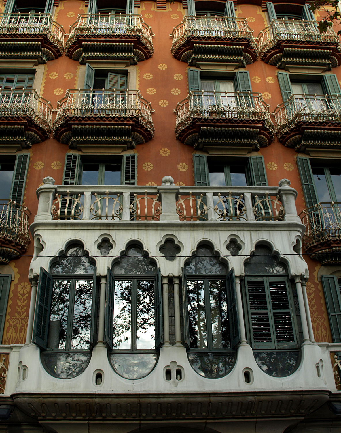 Casa Estapé - Catalan Modernisme (1907, Bernardí Martorell i Rius)